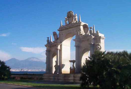 Private photo taken and uploaded by user Jeffmatt 07:52, 25 September 2006 (UTC). No rights claimed.